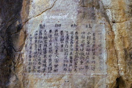 Que lam dong chu